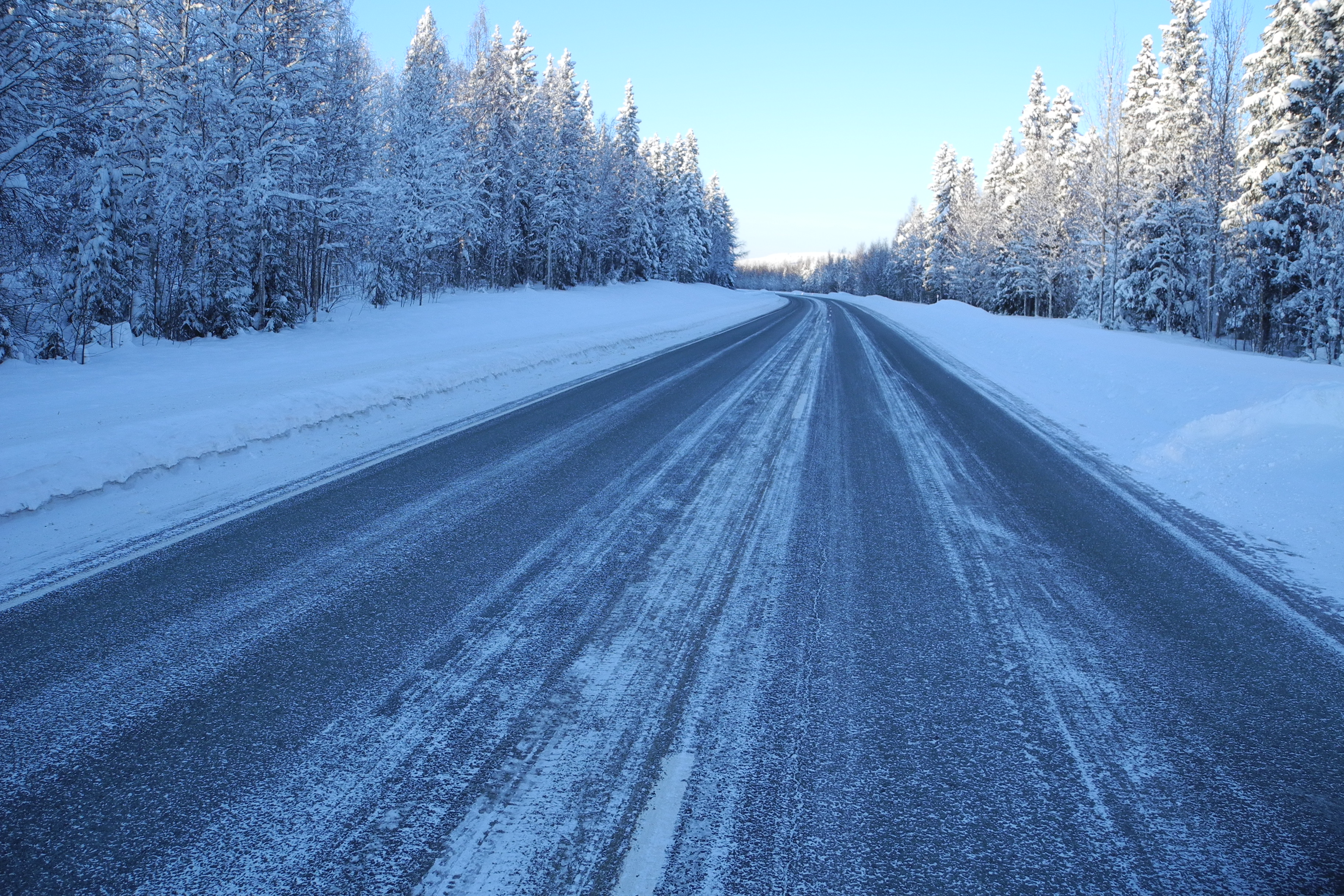 Main road 79 near Sinettä in Rovaniemi, Finland.